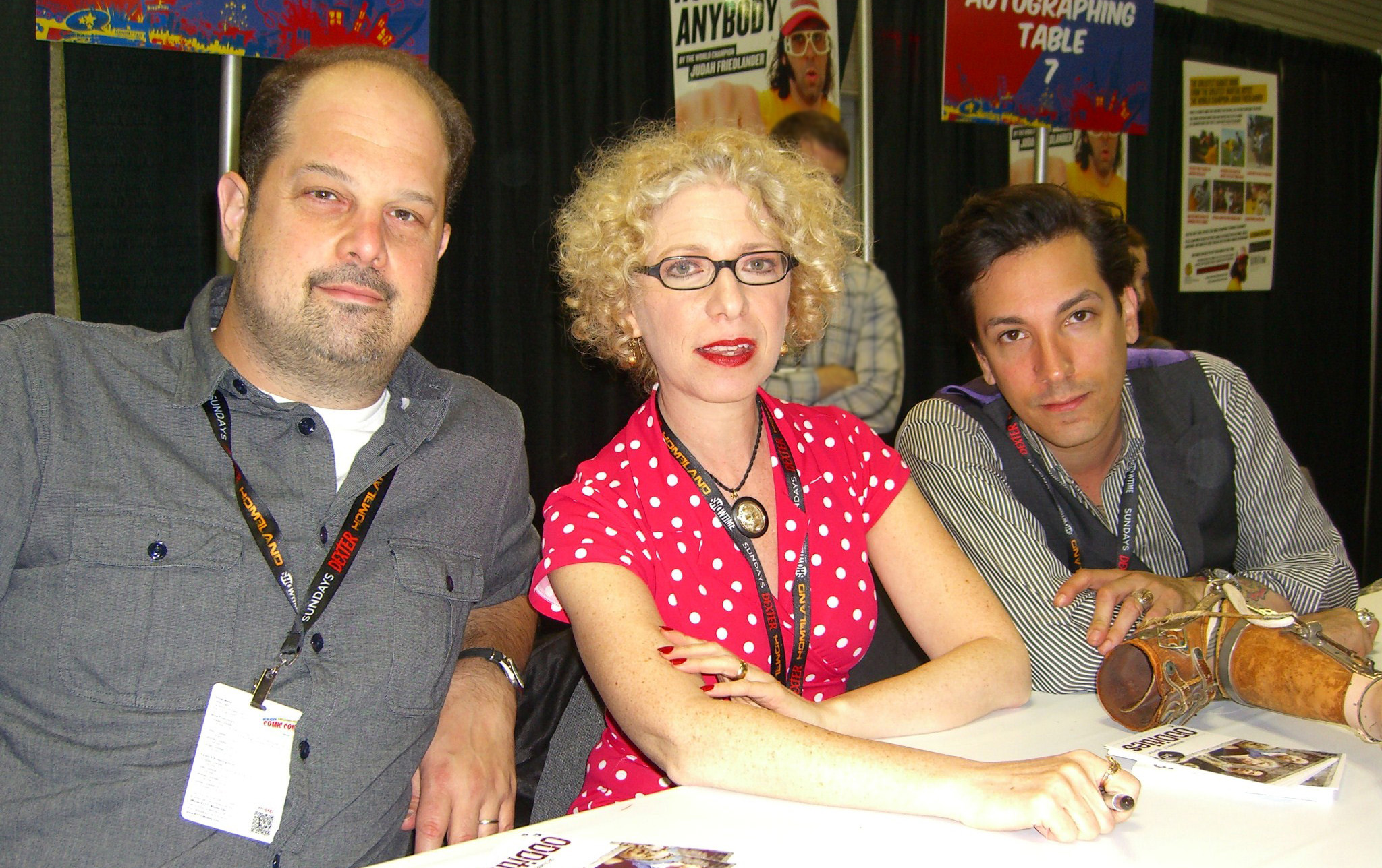 From left to right: Mike Zohn, Evan Michelson and Ryan Matthew Cohn, of the TV series Oddities, at the New York Comic Con, October 15, 2011. This photo was created by Luigi Novi. It is not in the public domain, and use of this file outside of the licensing terms is a copyright violation.